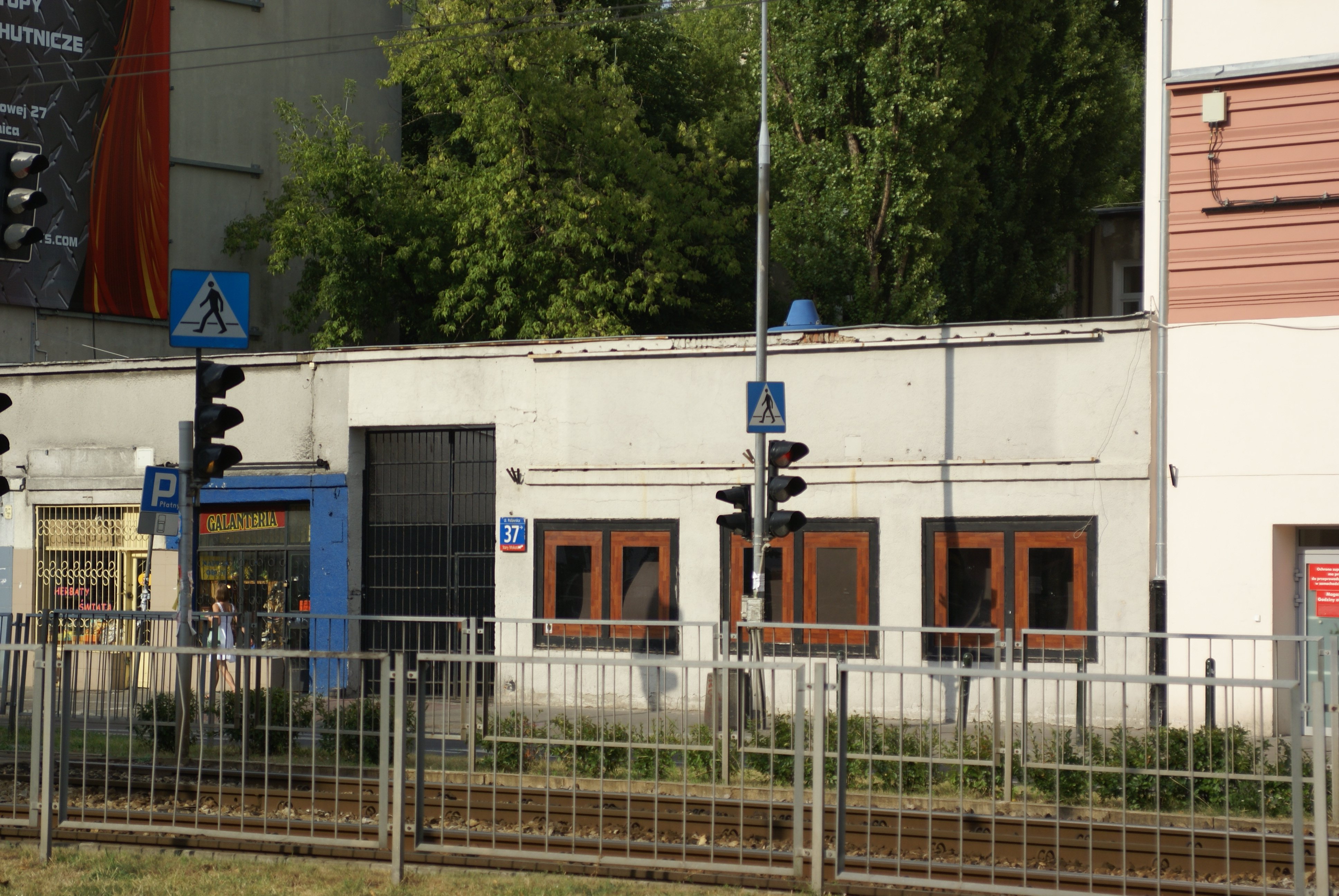 Nowy Theater, Warsaw, Poland